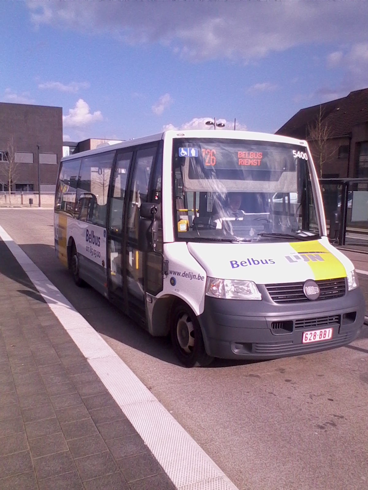 VDL Procity